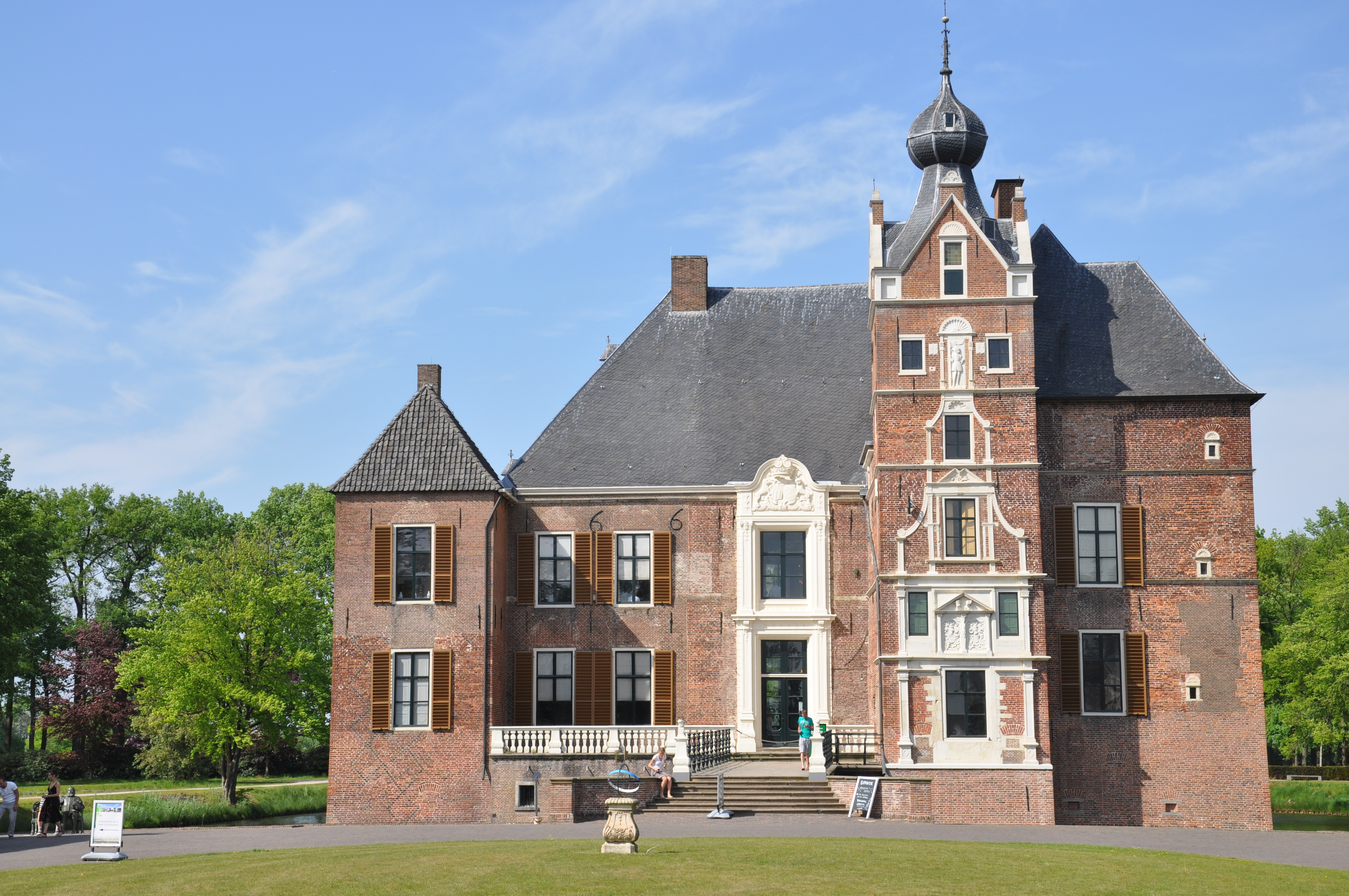 Kasteel Cannenburgh Vaassen 520122